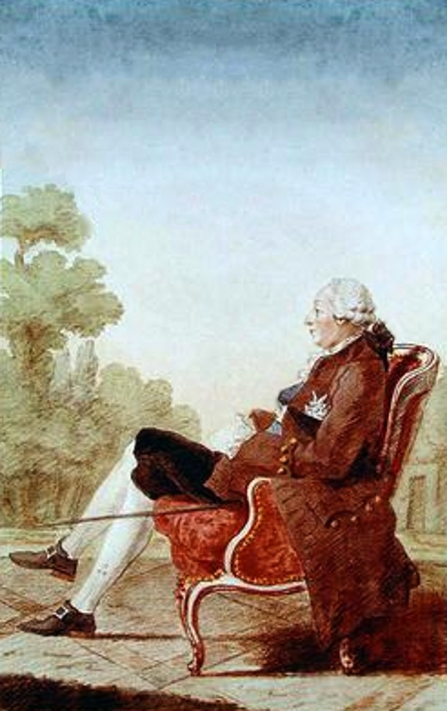 Picture of the Prince of Marsan Camille de Lorraine